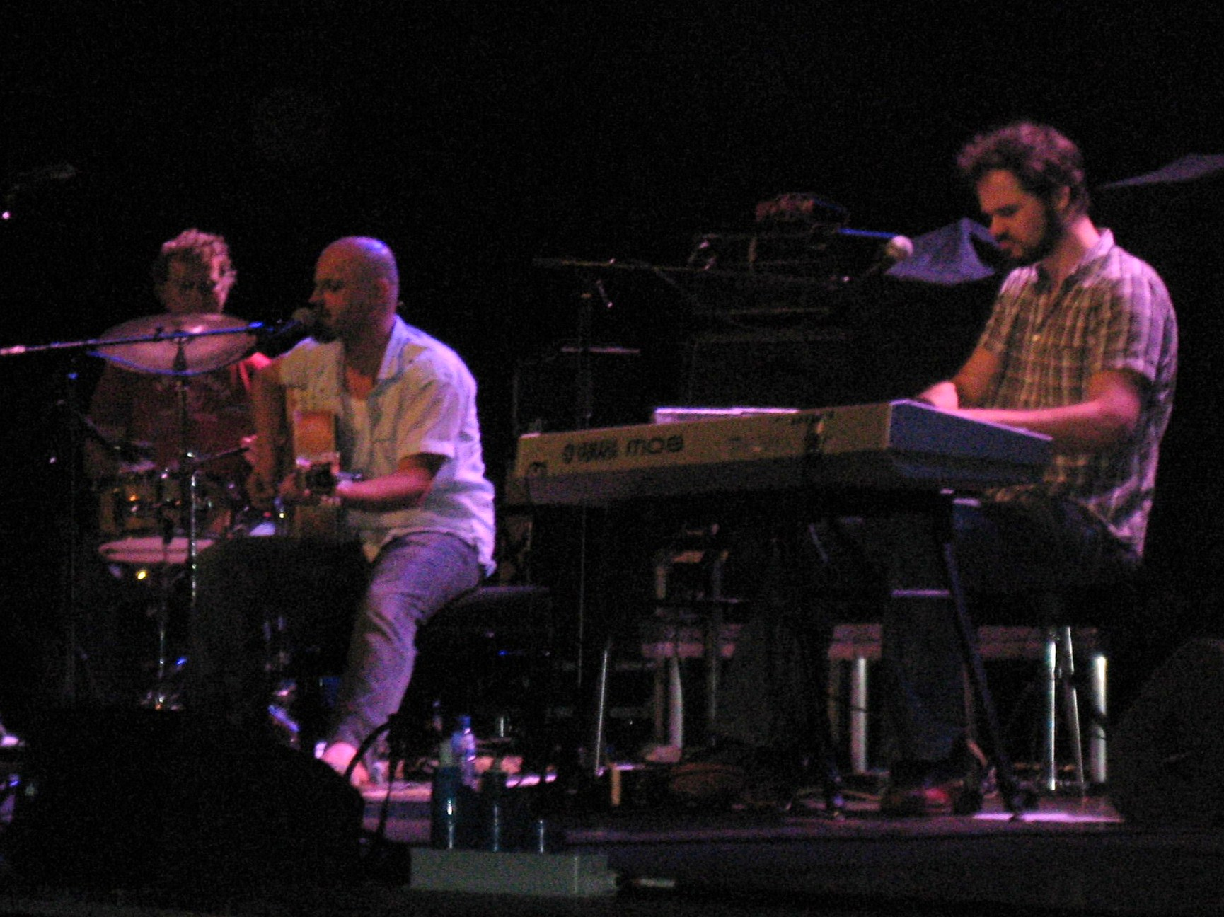 Woodface (band)